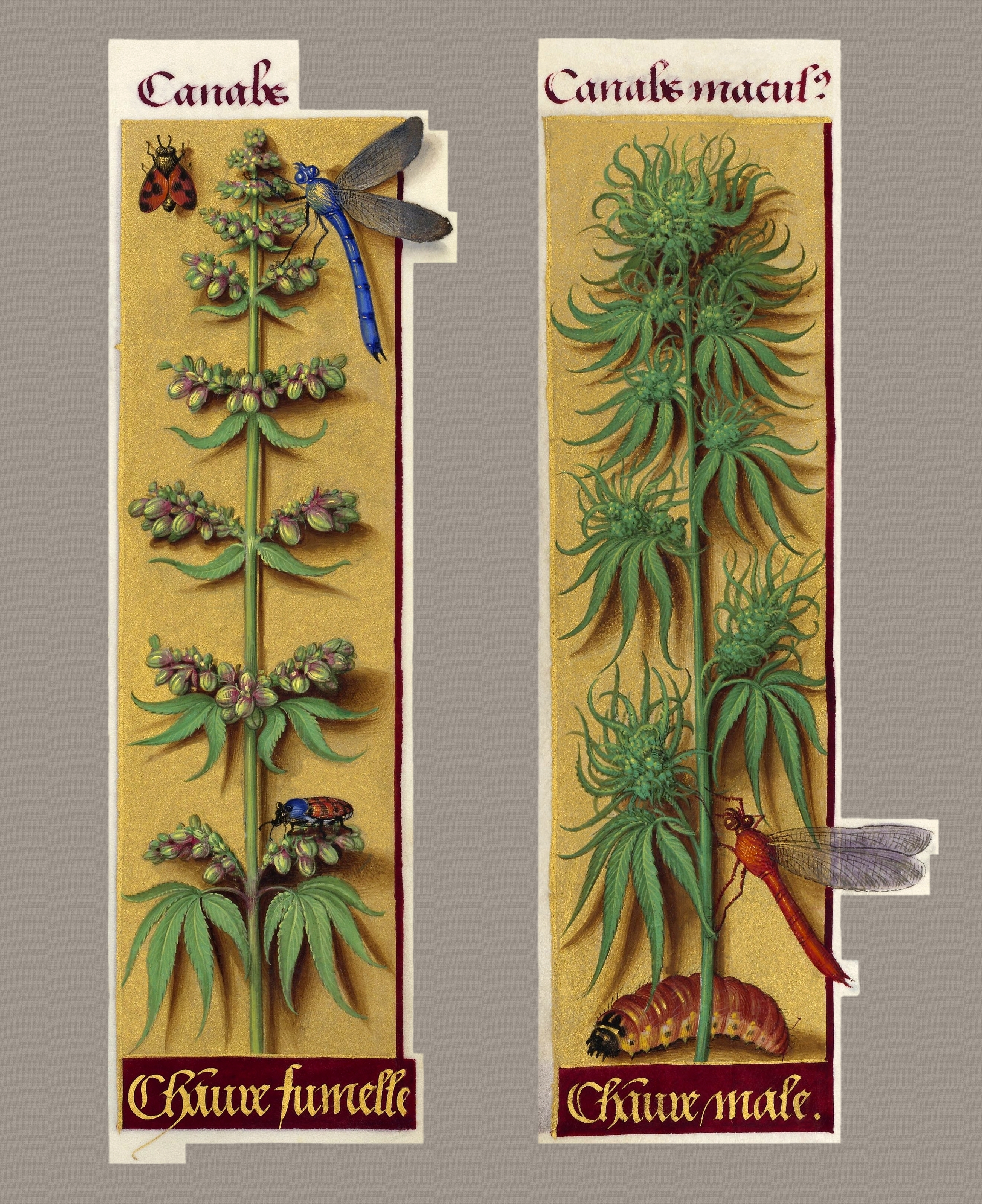 Cannabis sativa, "canabs", "chanve fumelle" and "chanve male", as seen in the Grandes Heures of Anne of Bretagne, (1505-1508). Here we have probably the most ancient botanic depiction of the plant in the western world (male and female).